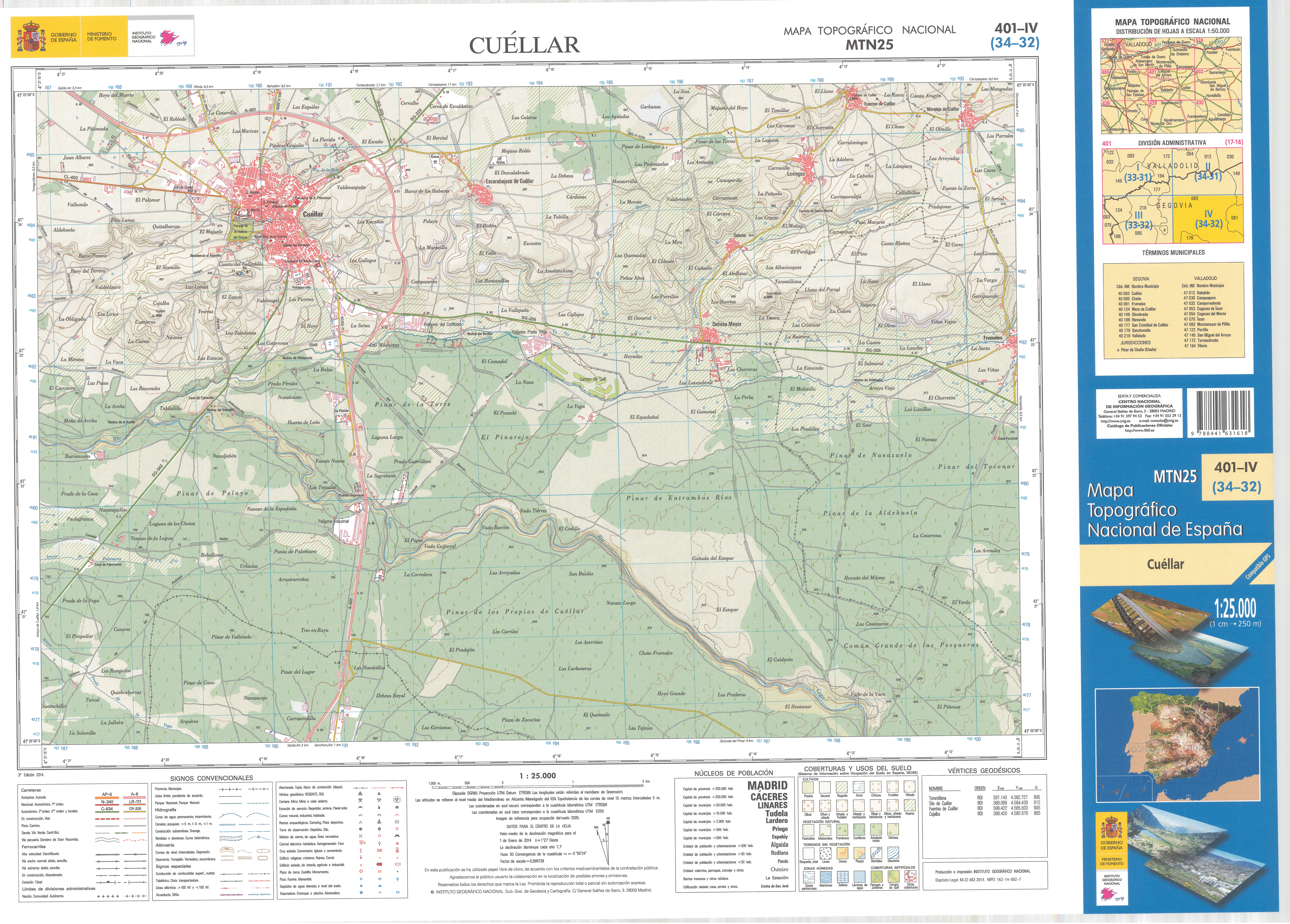 Fragment 0401c4 of the National Topographic Map of Spain in 2014 at a scale of 1:25000 printed and scanned with a resolution of 250 ppi. It shows Cuellar.